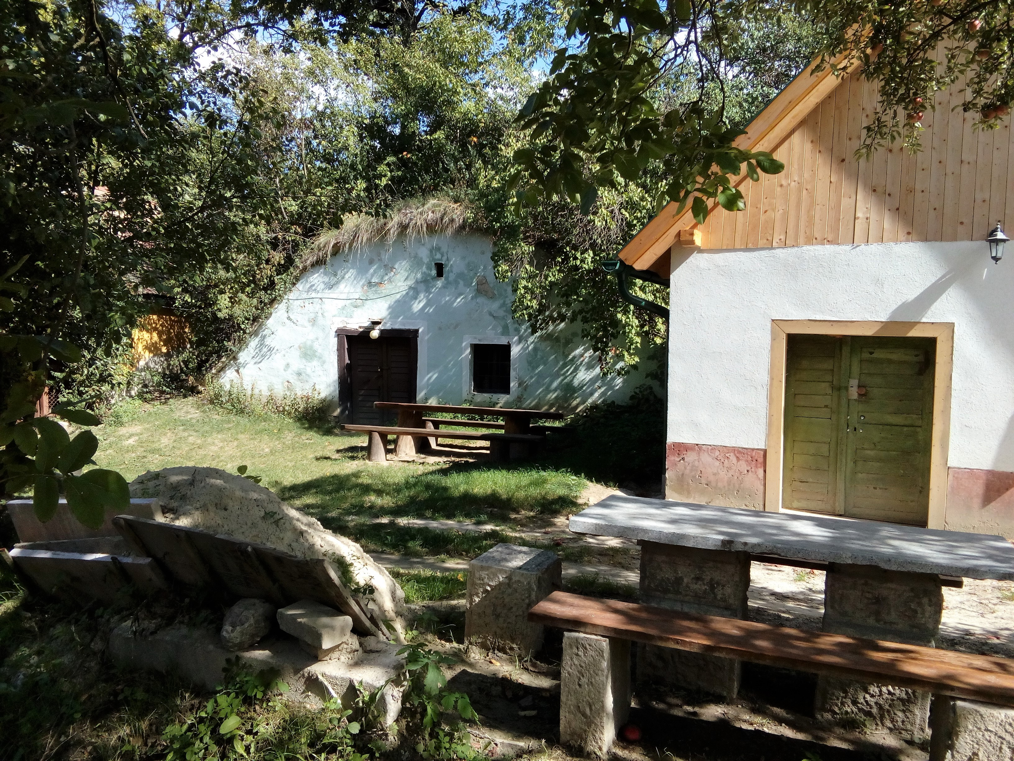 Wine cellars in Neszmély (Hungary)